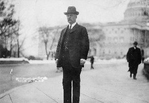 William Atkinson Jones, congressman from Virginia, full-length portrait, standing, facing slightly left, on U.S. Capitol grounds.